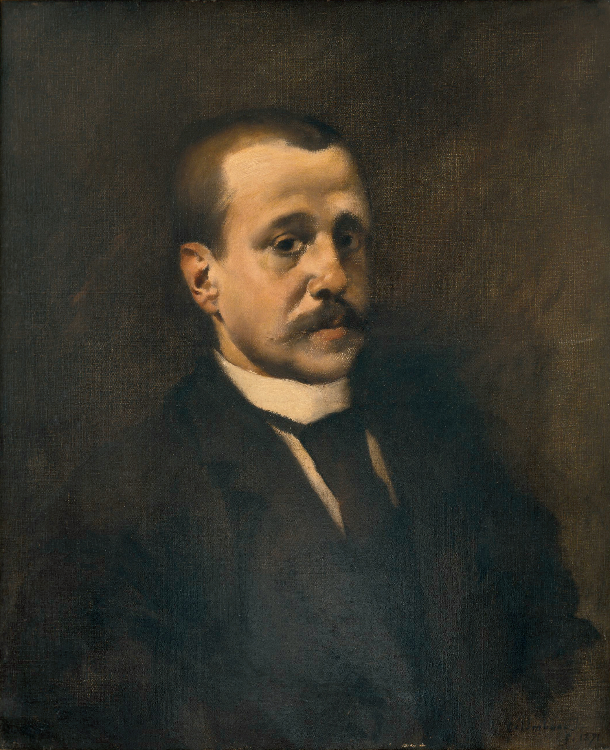 Portrait of Fialho de Almeida (1857-1911), Portuguese journalist and author, by Columbano Bordalo Pinheiro.